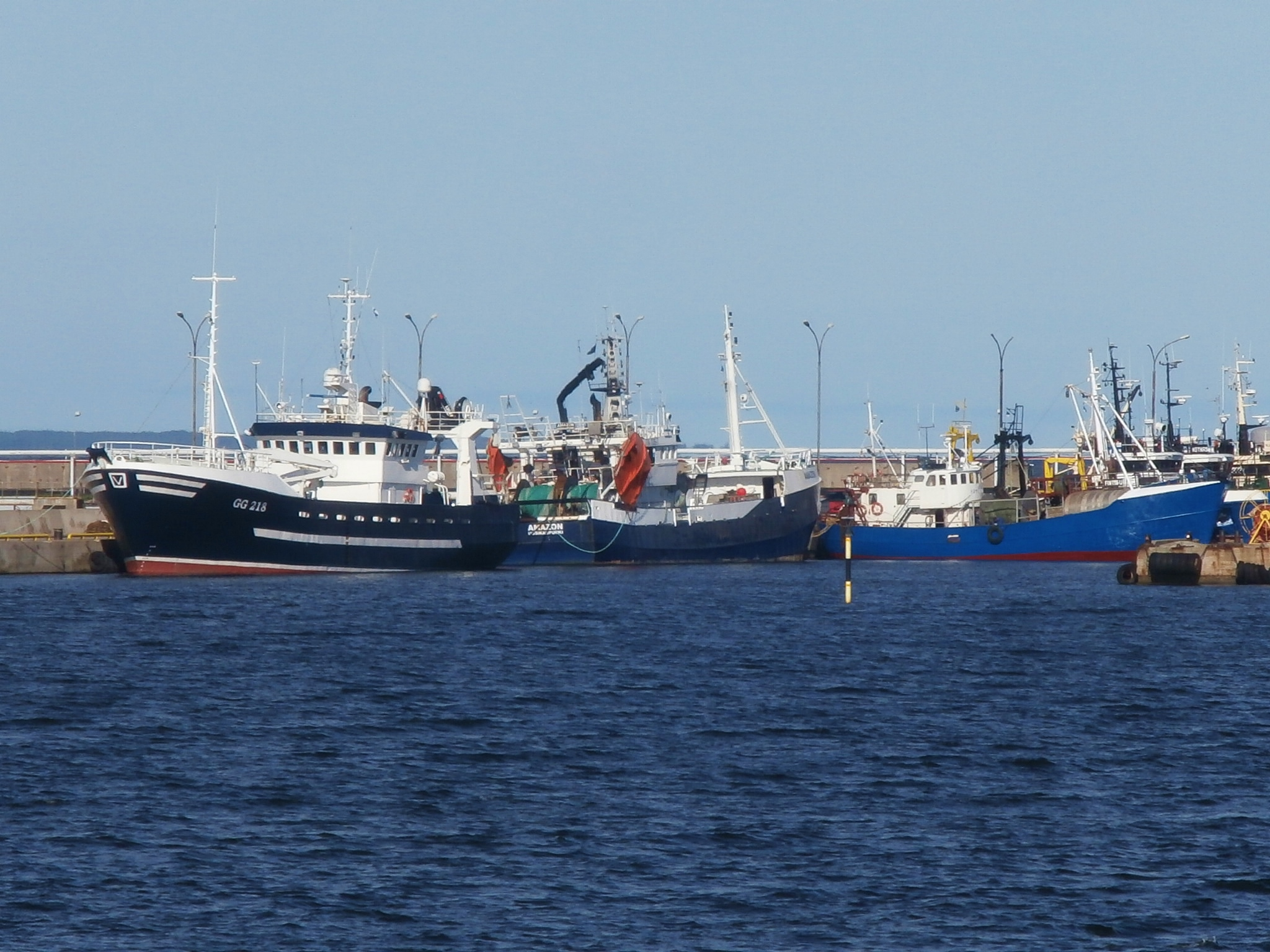 GG 218 Silverfors, FIN-1106-T Amazon and FIN-1116-U Hemland in Port of Miiduranna 6 September 2016